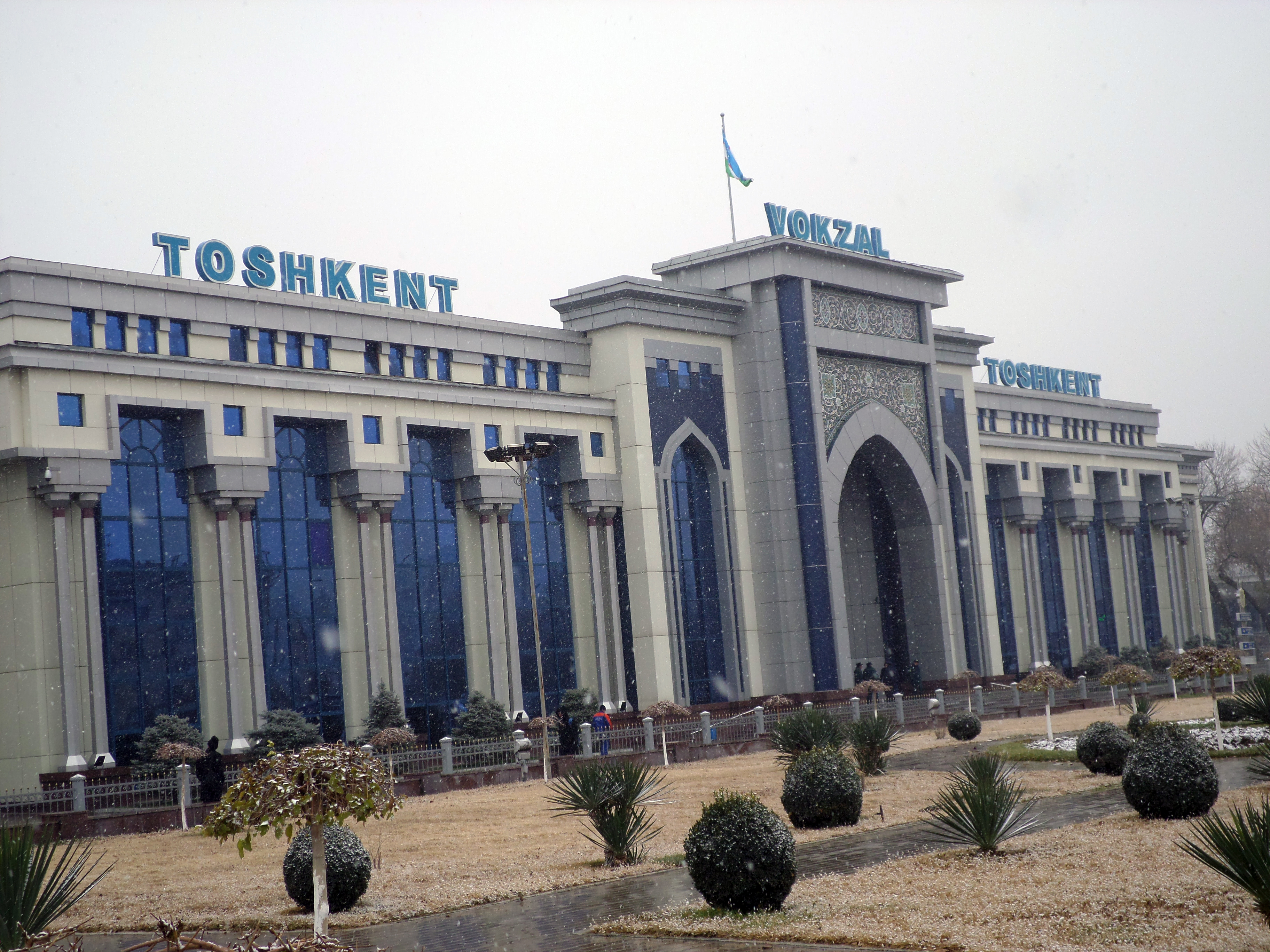 Tashkent Station